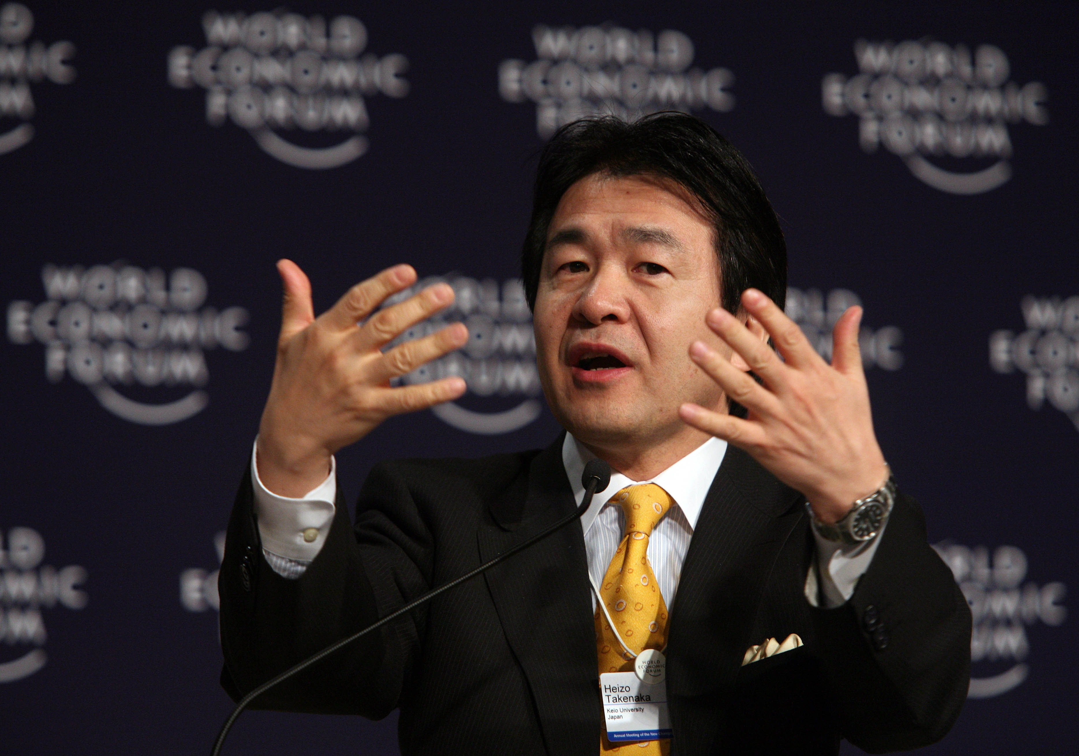 Director of Global Security Research Institute, Keio University Heizō Takenaka spoken at the World Economic Forum Annual Meeting of the New Champions in Tianjin City on September 27, 2008.